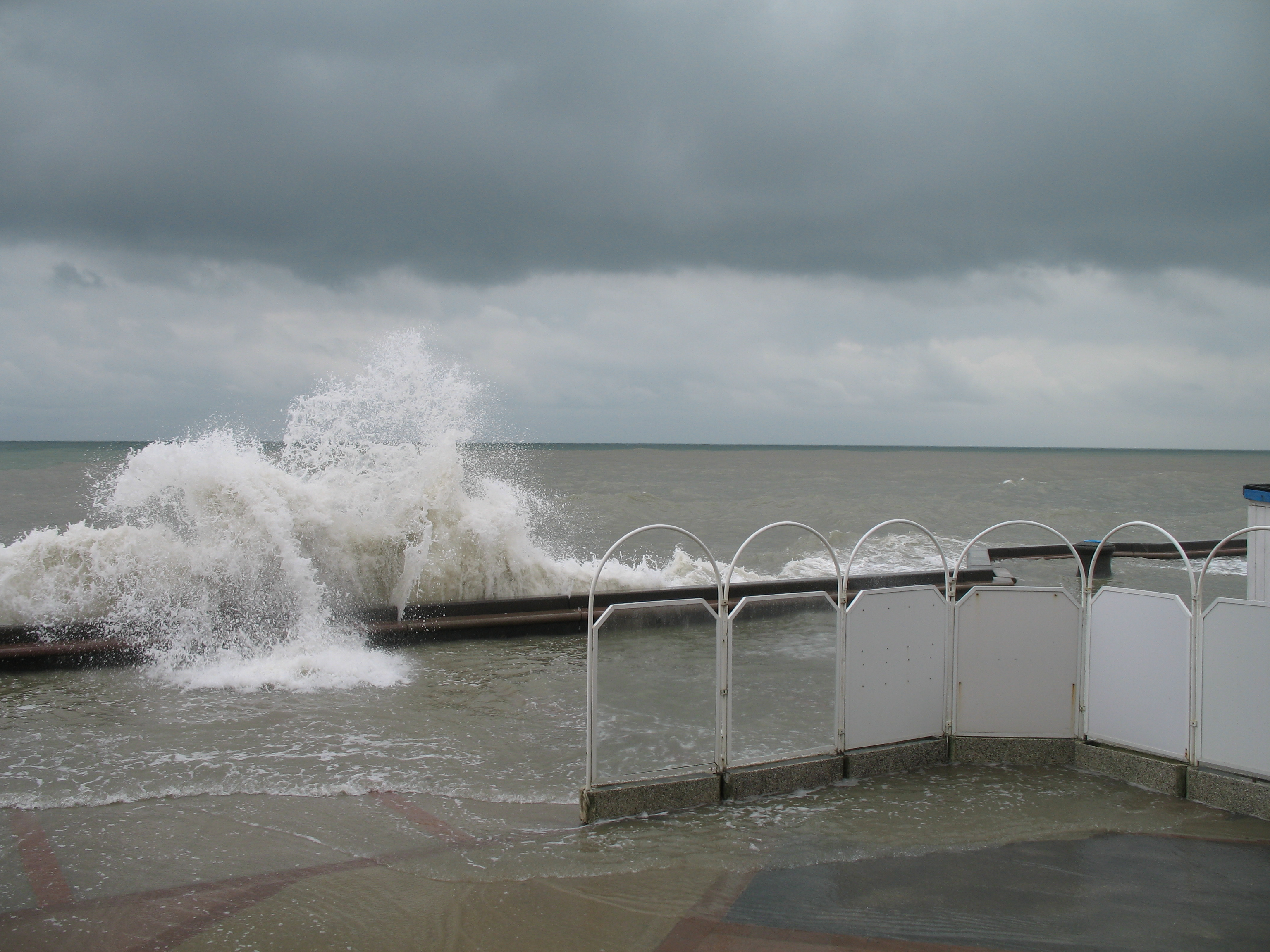 Spring tide at Wimereux (département du Pas-de-Calais, France)